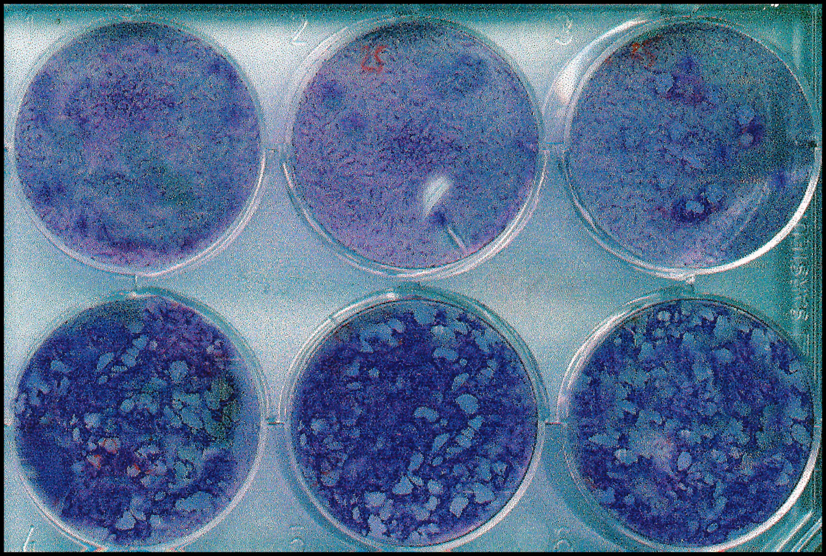 Varicella zoster virus produced plaques in monolayers of MRC5 cells. Each well contained different amounts of the antiviral drug aciclovir. By counting the plaques (holes formed by the virus in the layer of cells) the potency of the aciclovir can be calculated (i.e. the IC50).